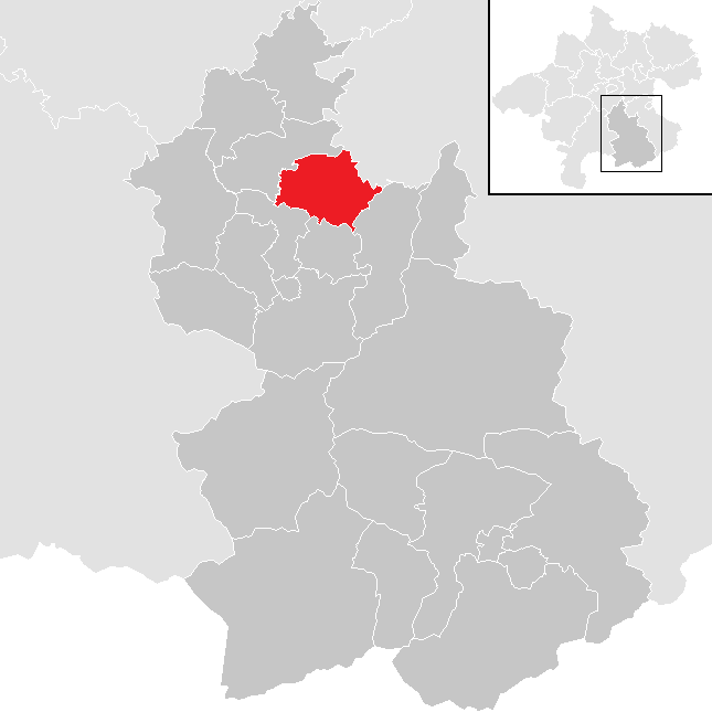 district Kirchdorf an der Krems